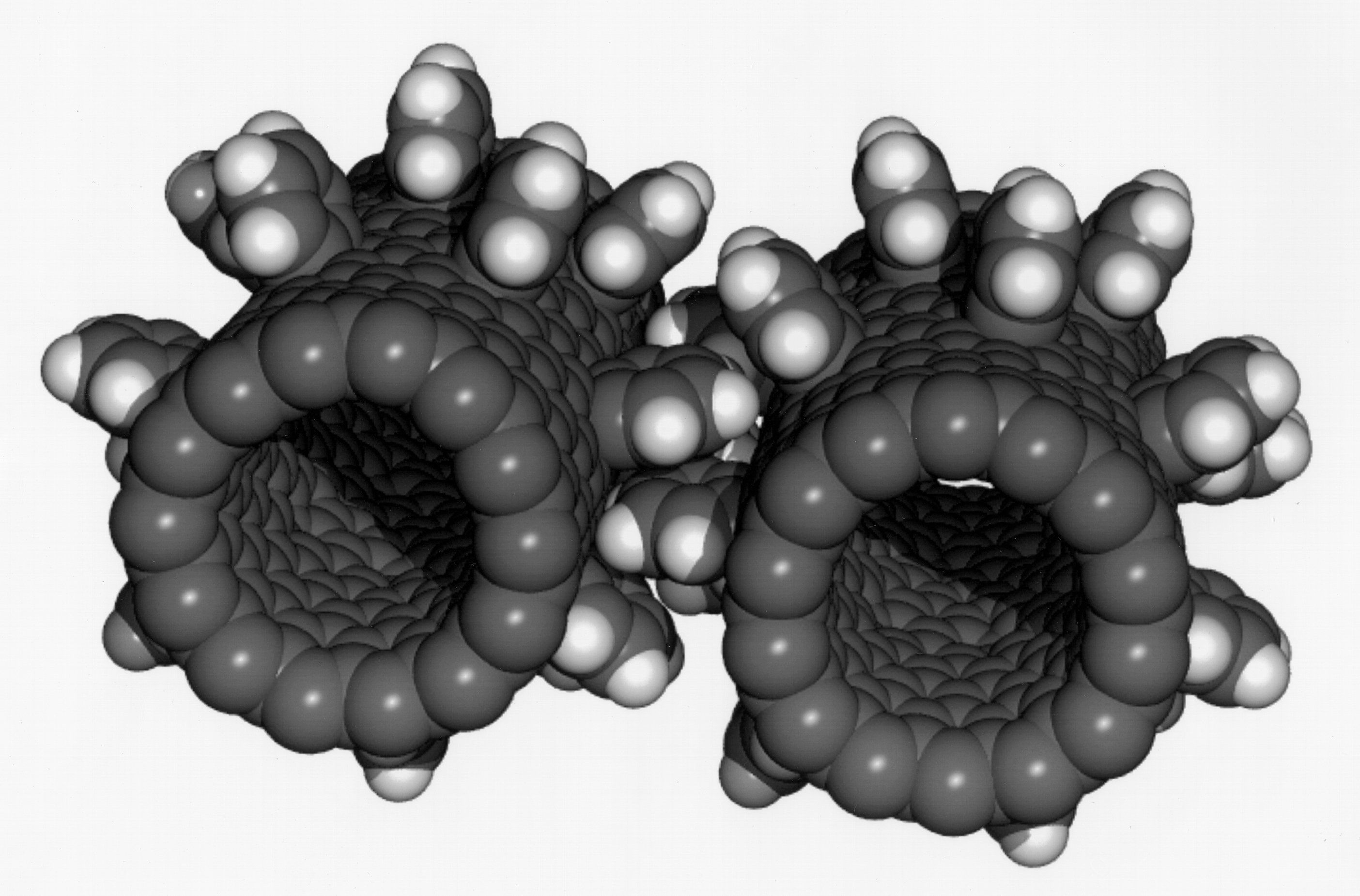 The Numerical Aerospace Simulation Systems Division (NAS) of the NASA Ames Research Center, Moffett Field, California is conducting research into molecular-sized devices known as Nanotechnology. This photograph depicts two "Fullerene Nano-gears" with multiple teeth. The hope is that one day, products can be constructed made of thousands of tiny machines that could self-repair and adapt to the environment in which they exist. Researchers have simulated attaching benzene molecules to the outside of a nanotube to form gear teeth. Nanotubes are molecular-sized pipes made of carbon atoms. To "drive" the gears, the supercomputer simulated a laser that served as a motor. The laser creates an electric field around the nanotube. A positively charged atom is placed on one side of the nanotube, and a negatively charged atom on the other side. The electric field drags the nanotube around like a shaft turning. Jie Han, Al Globus, Richard Jaffe and Glenn Deardorff are the authors of a technical paper detailing this technology which appears in The Journal of Nanotechnology.